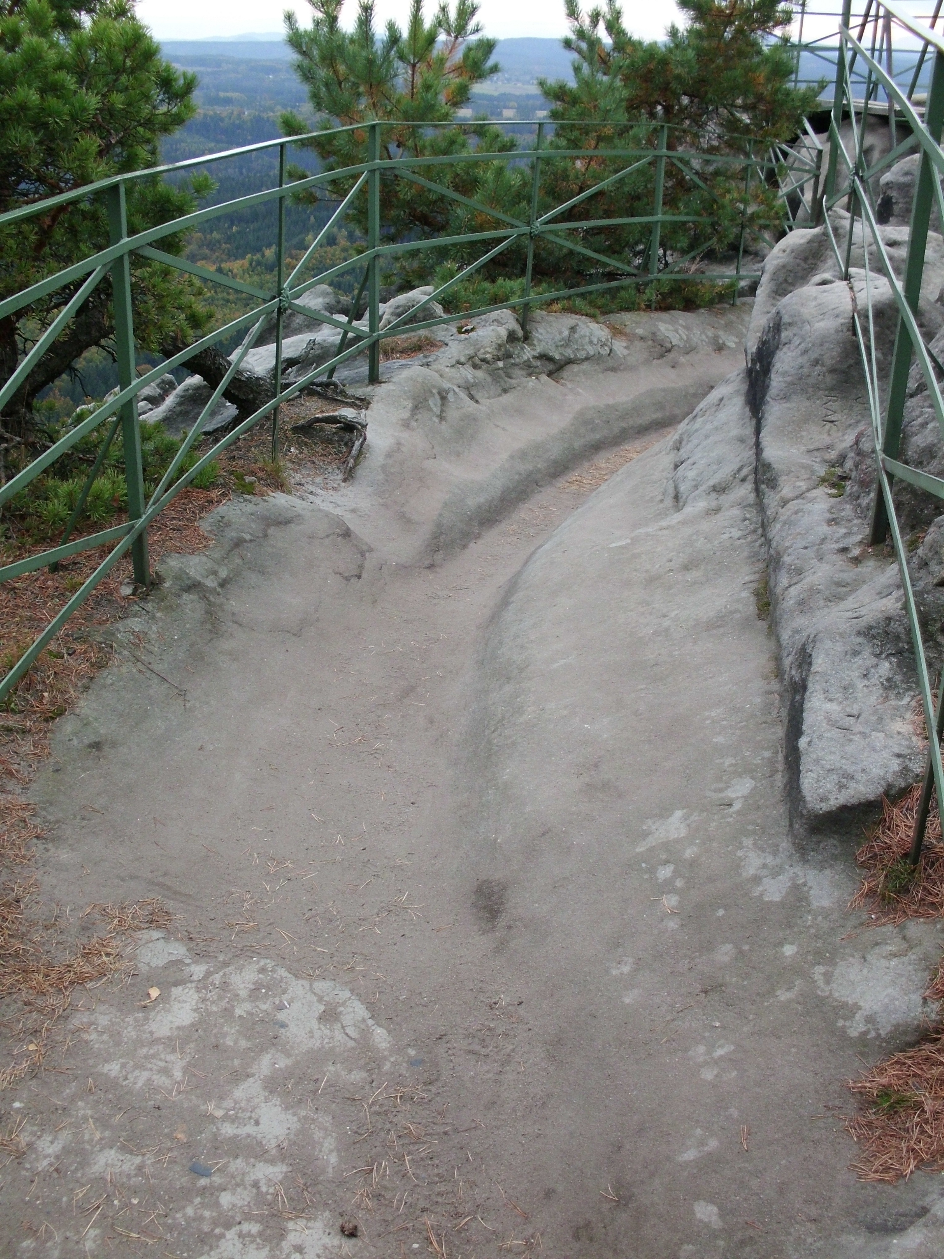 National natural monument Pravčická brána in Děčín District, Czech Republic.